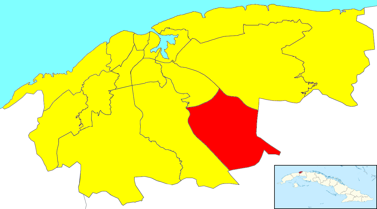 A map of the municipality of Cotorro (shown in red) within the city of Havana (yellow). The little Cuban map in the corner shows Havana (dark red) within the island.